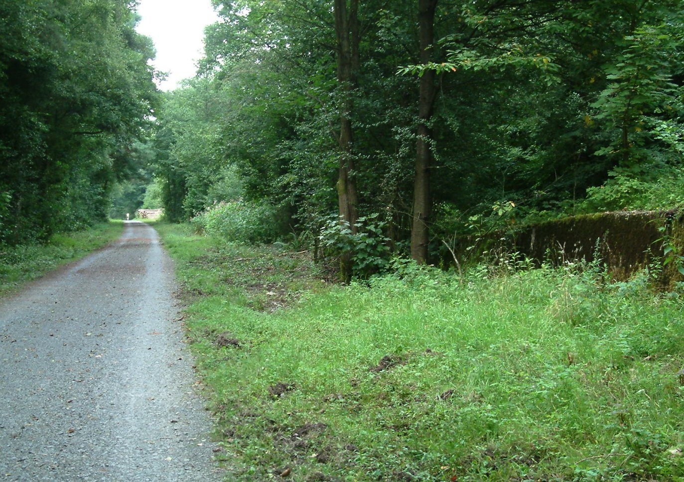 Abandonned (1961) railway Sülztalbahn and place of Forsbach station. View in northern direction. Sorting siding bed on the right, place of station on the far right.